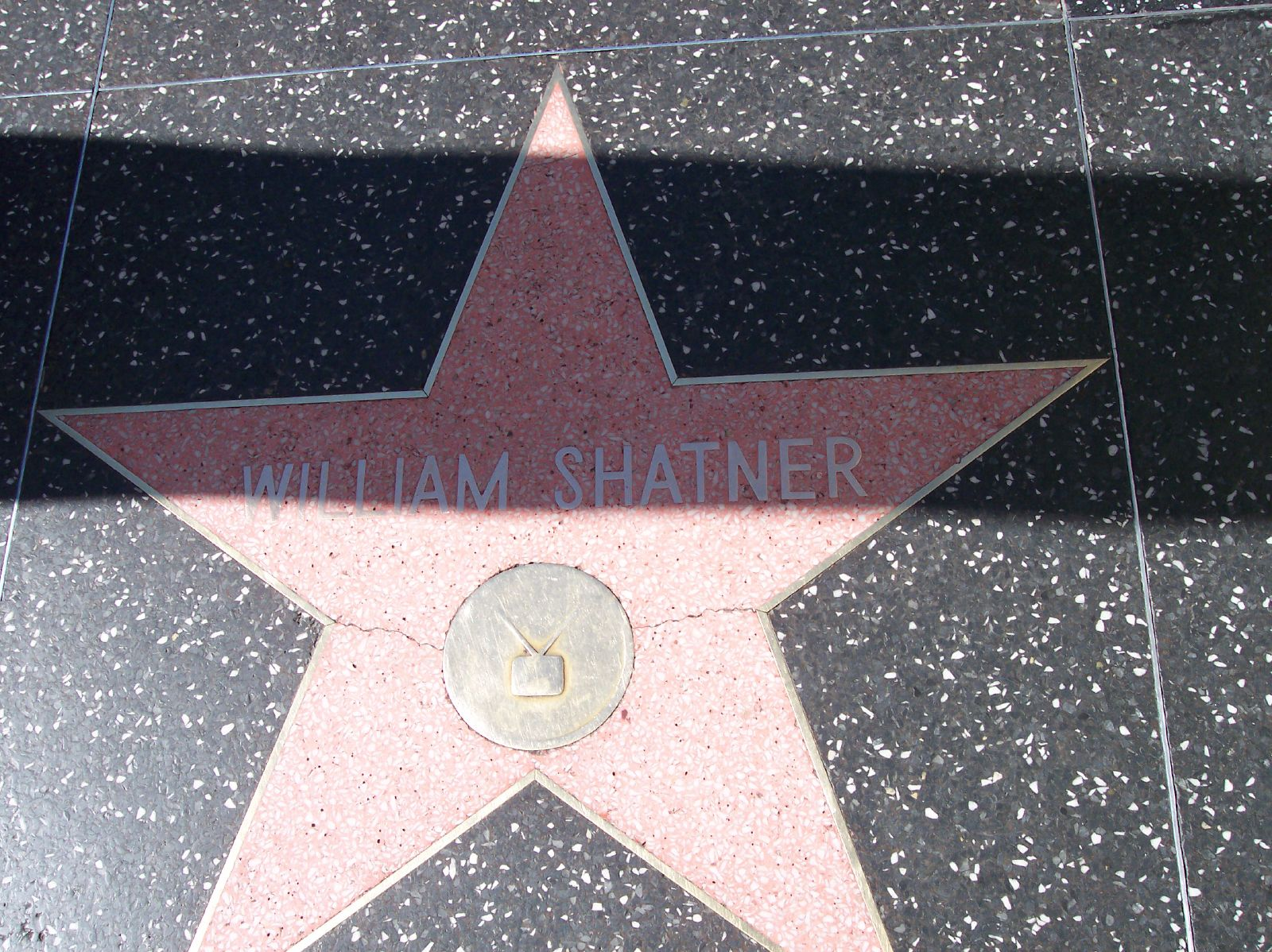 William Shatner's Star on the Hollywood Walk of Fame